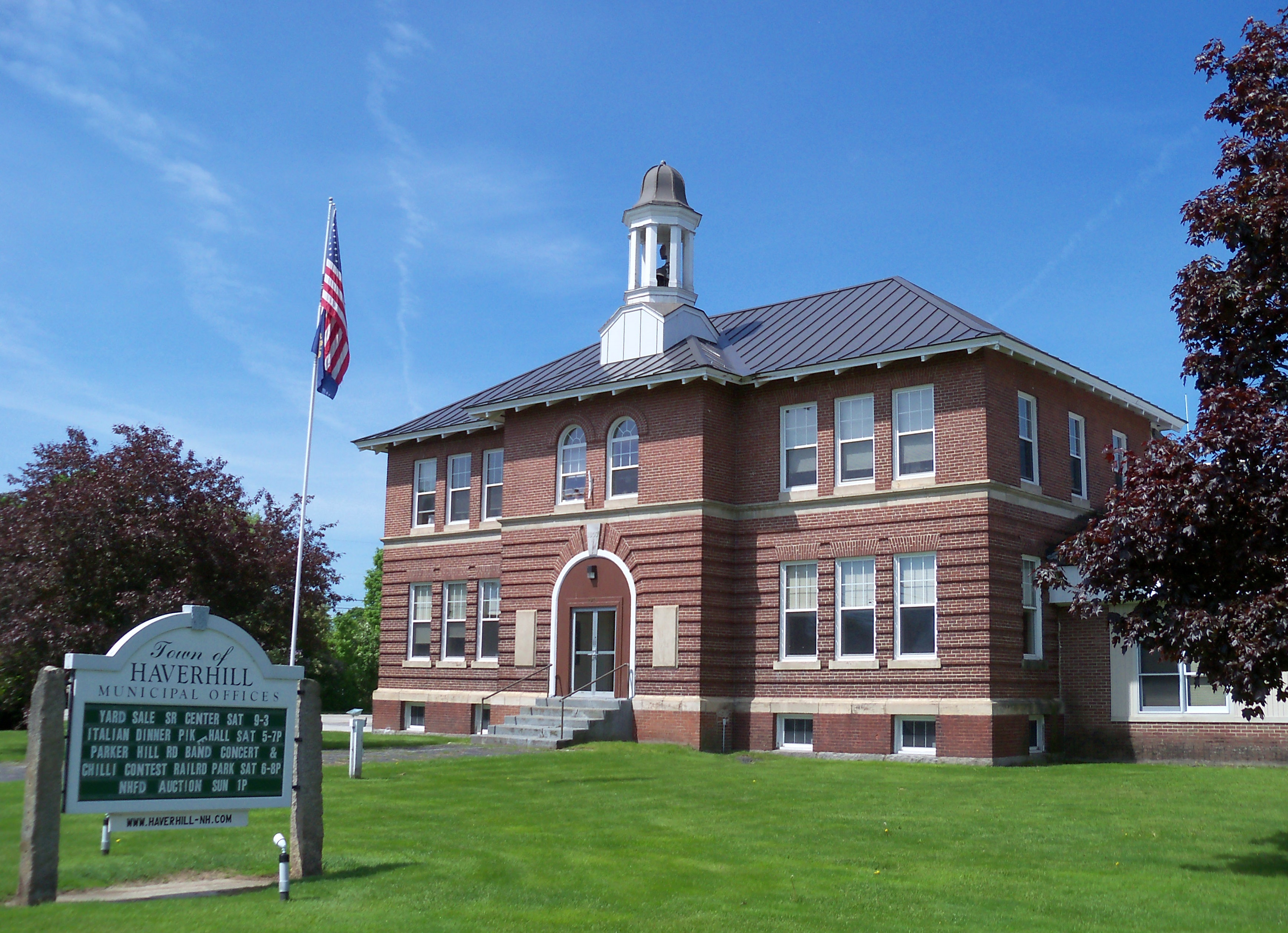 Town Hall in Haverhill, New Hampshire, USA.